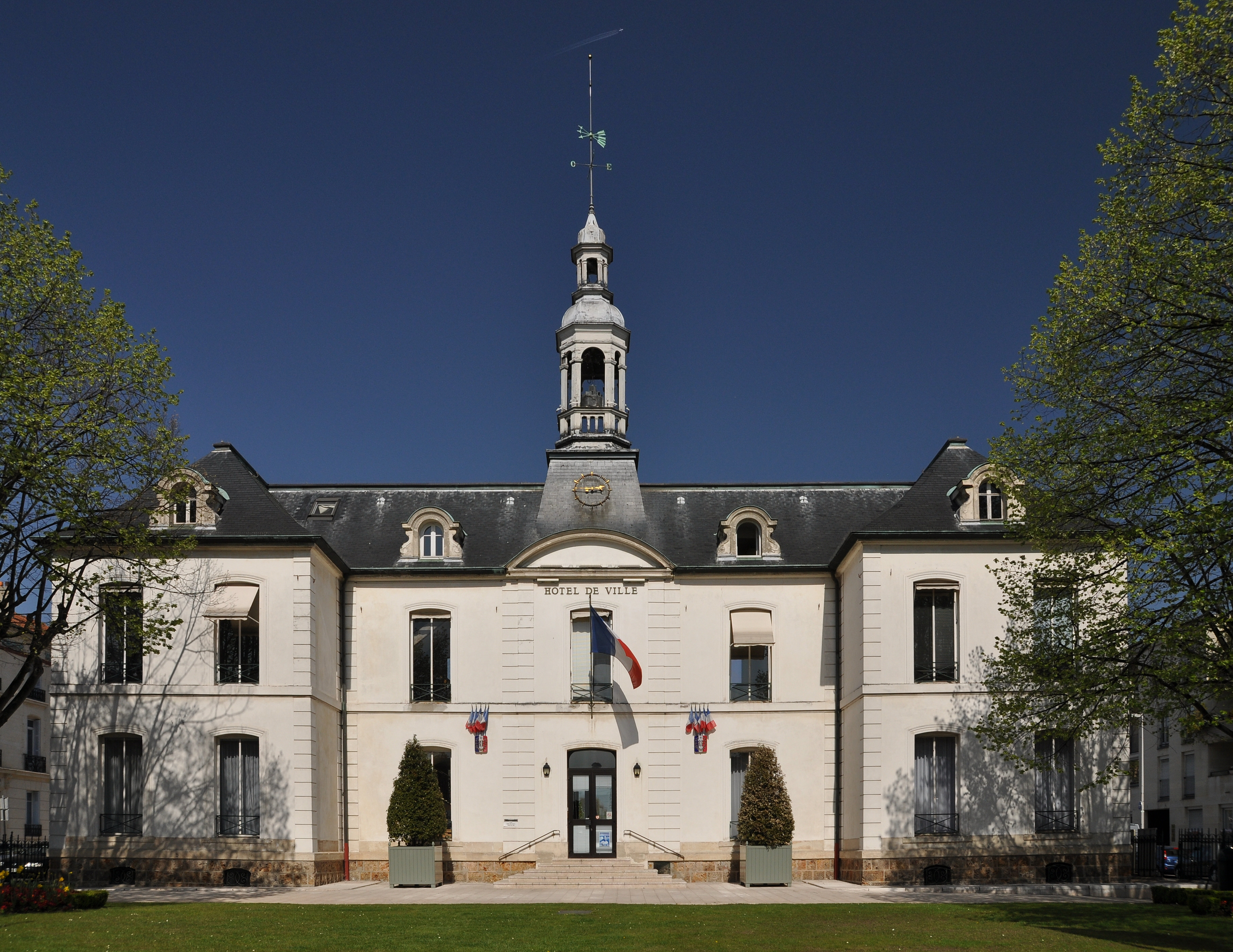 The town hall of Chatou in Yvelines department, France, installed in the former house of Count d’Arginy dating the 1st half of the 18th century.